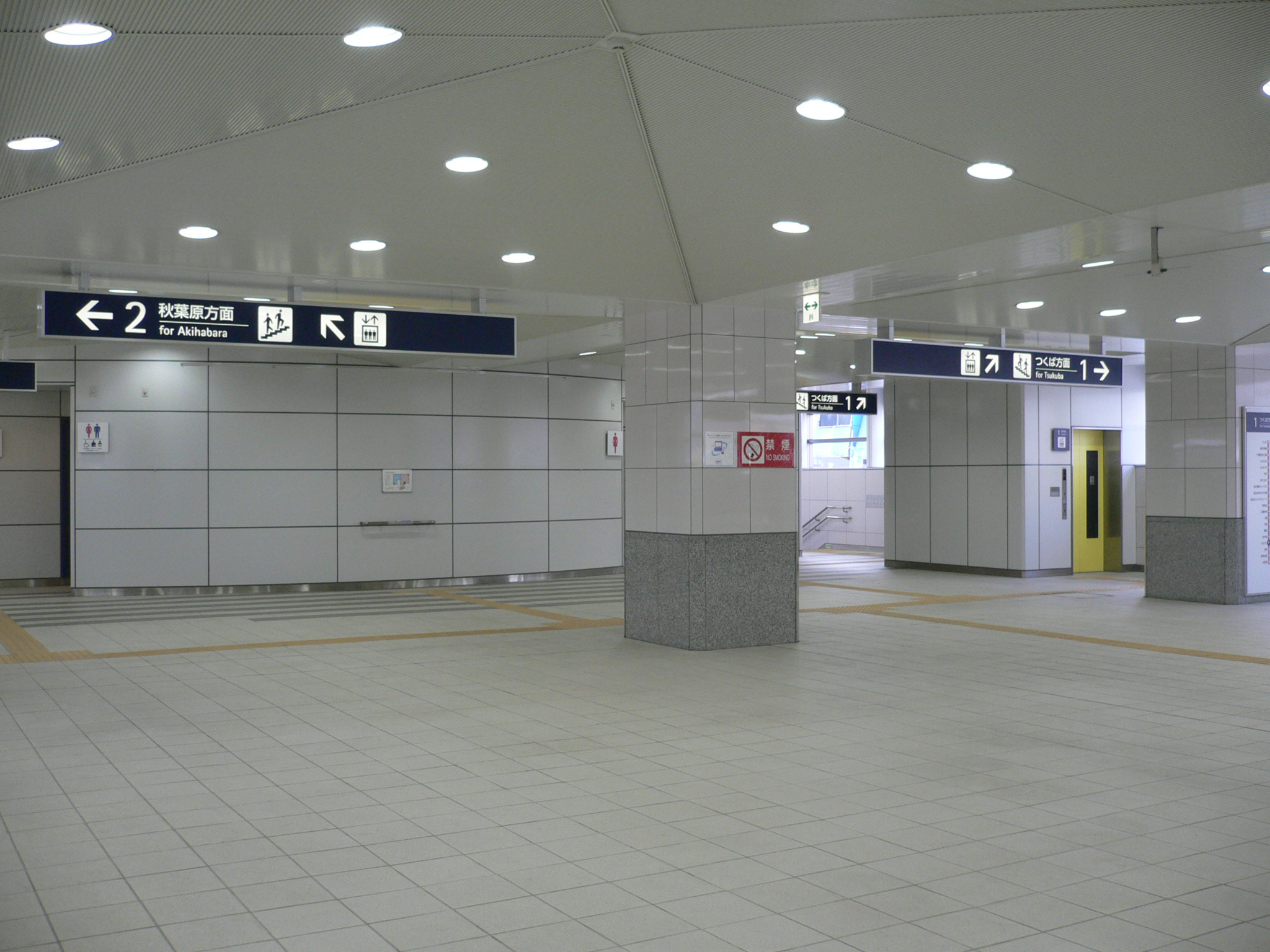 Minami senju Station (南千住駅), Arakawa W, Tokyo M.